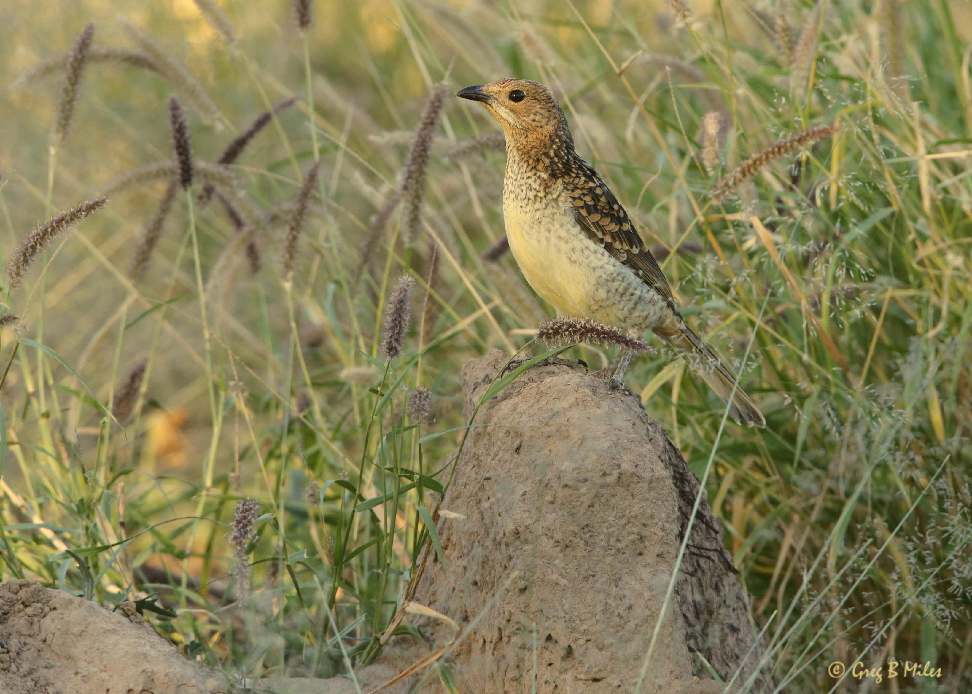 Spotted Bowerbird